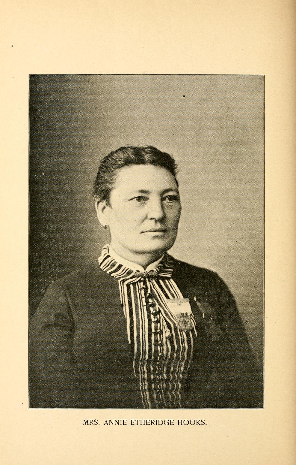 A white woman wearing a striped dress with a dark jacket. She has medals pinned to her chest.